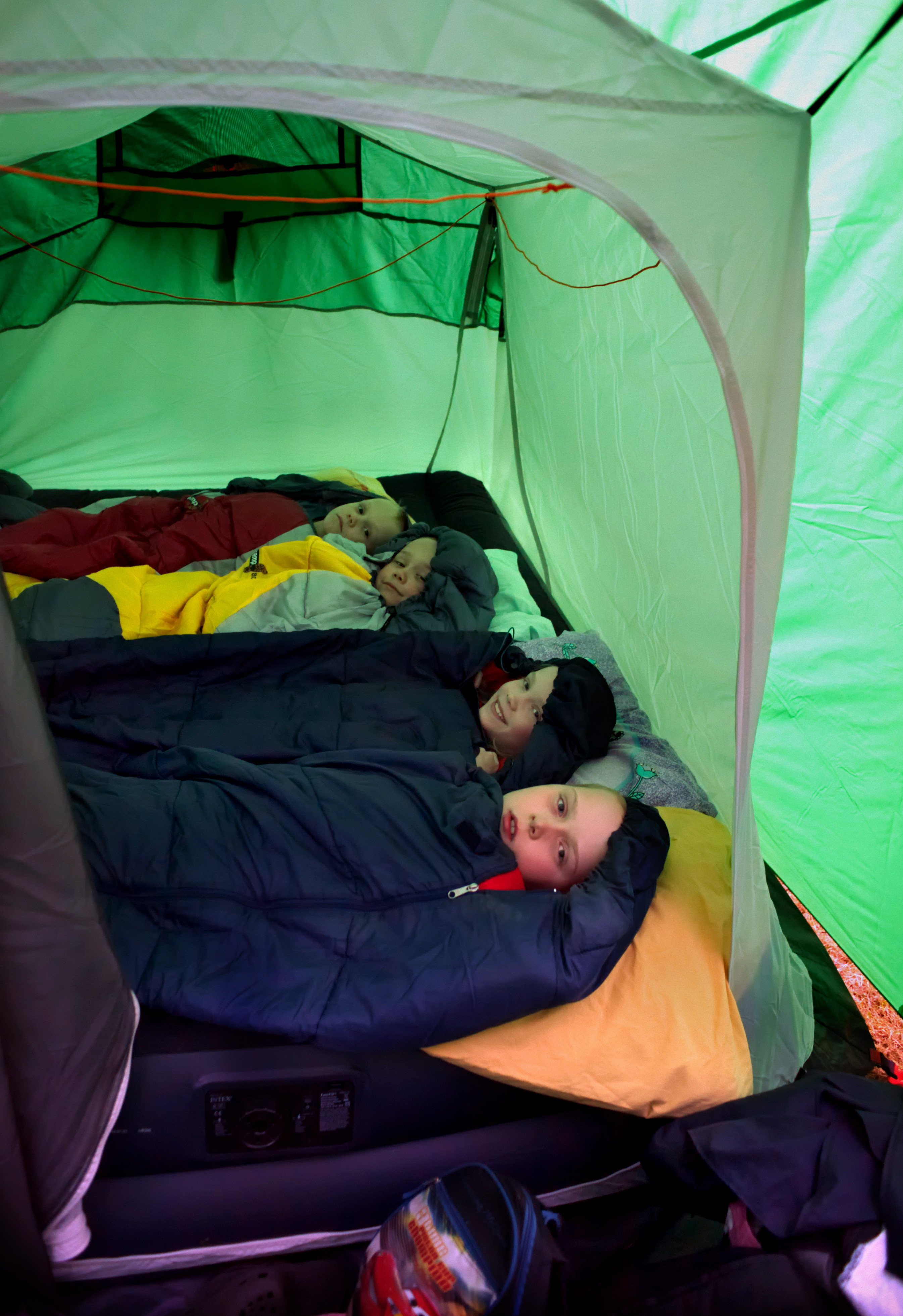 Children In A Tent